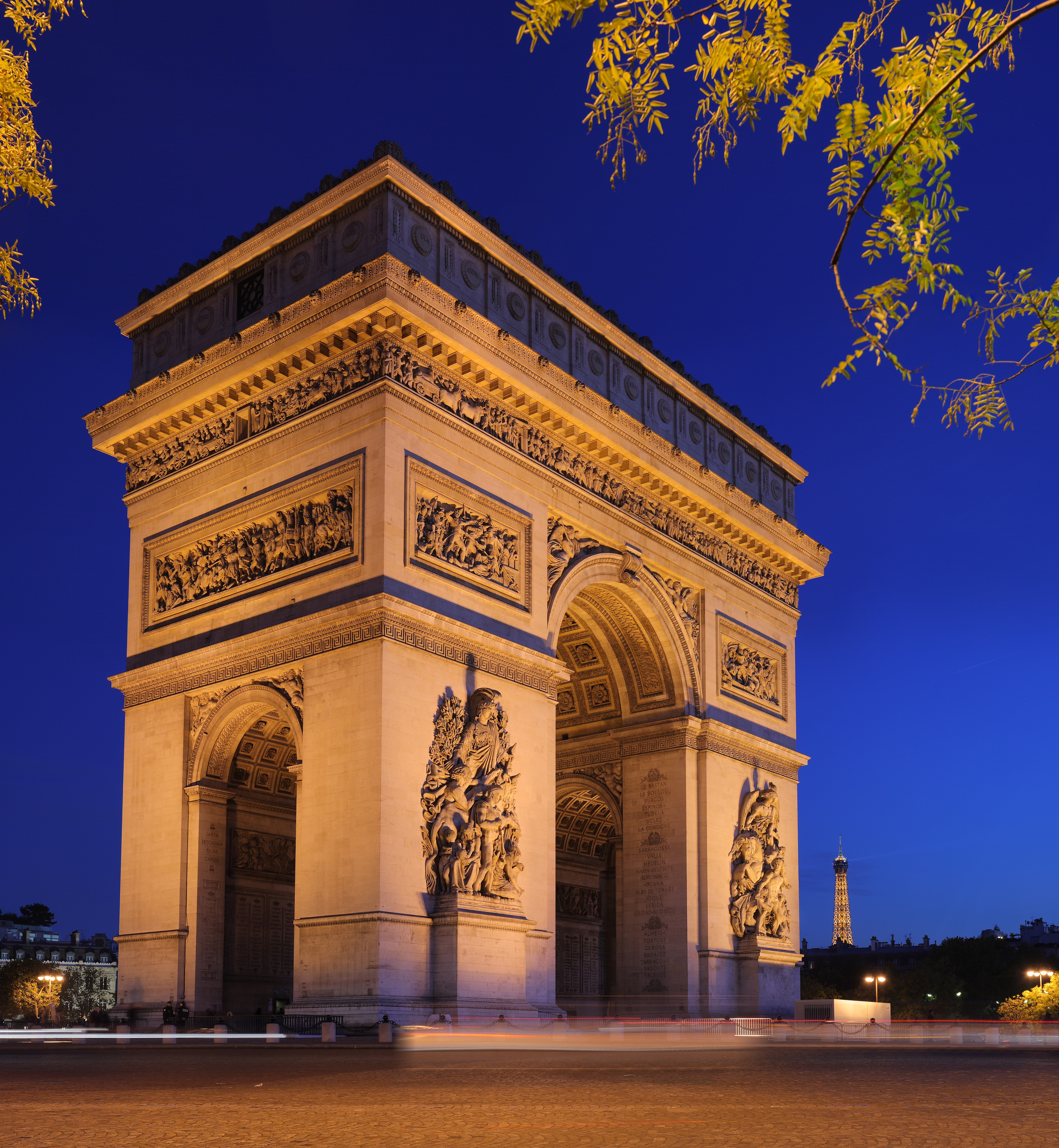 The Arc de Triomphe (Arch of Triumph), at the center of the place Charles de Gaulle, Paris.